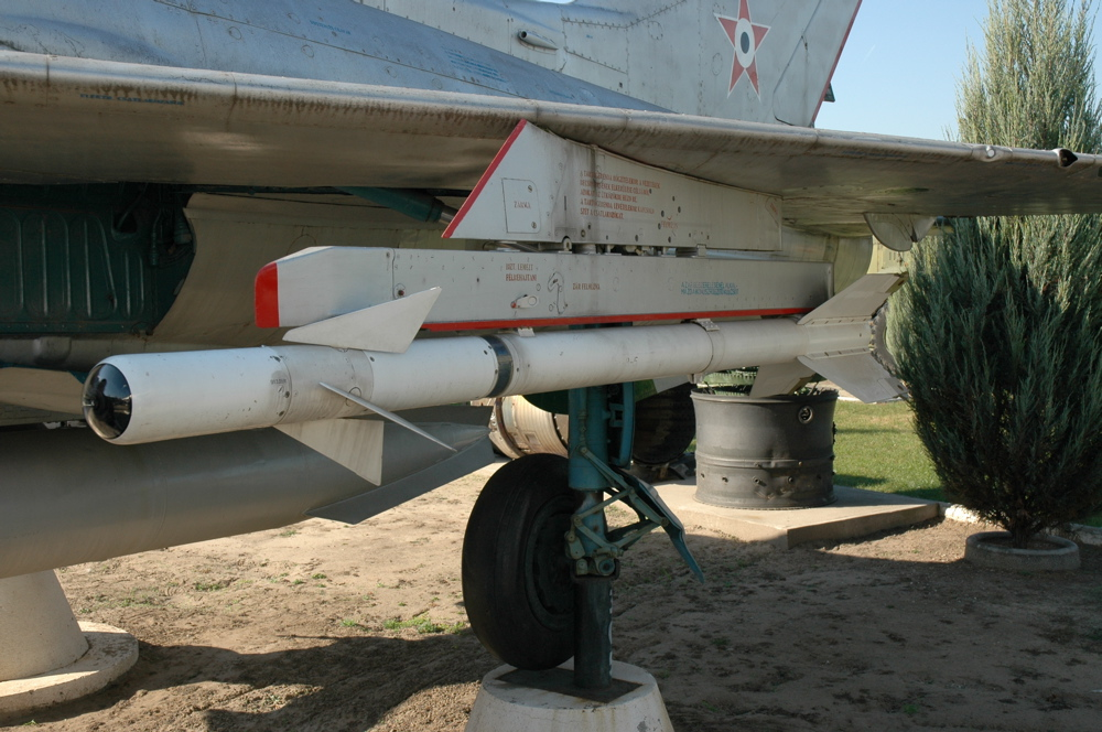 R-3 (AA-2 Atoll) air-to-air missile on MiG-21. (Displayed in the Military History Museum and Park in Kecel, Hungary.)